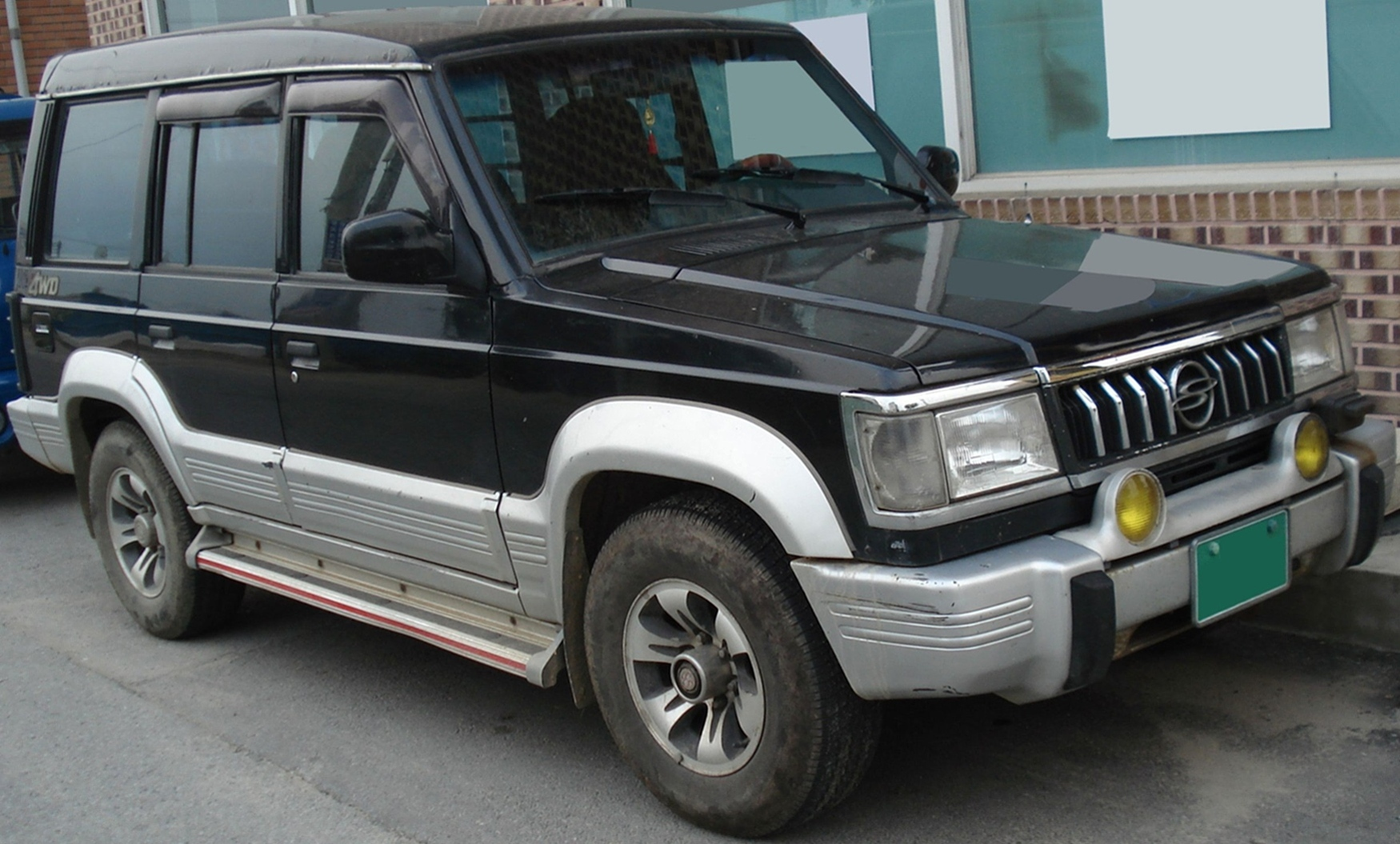 SsangYong Family